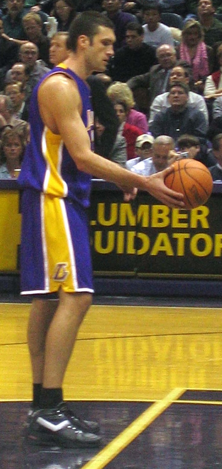 "I am huge and I will palm the ball" - Chris Mihm